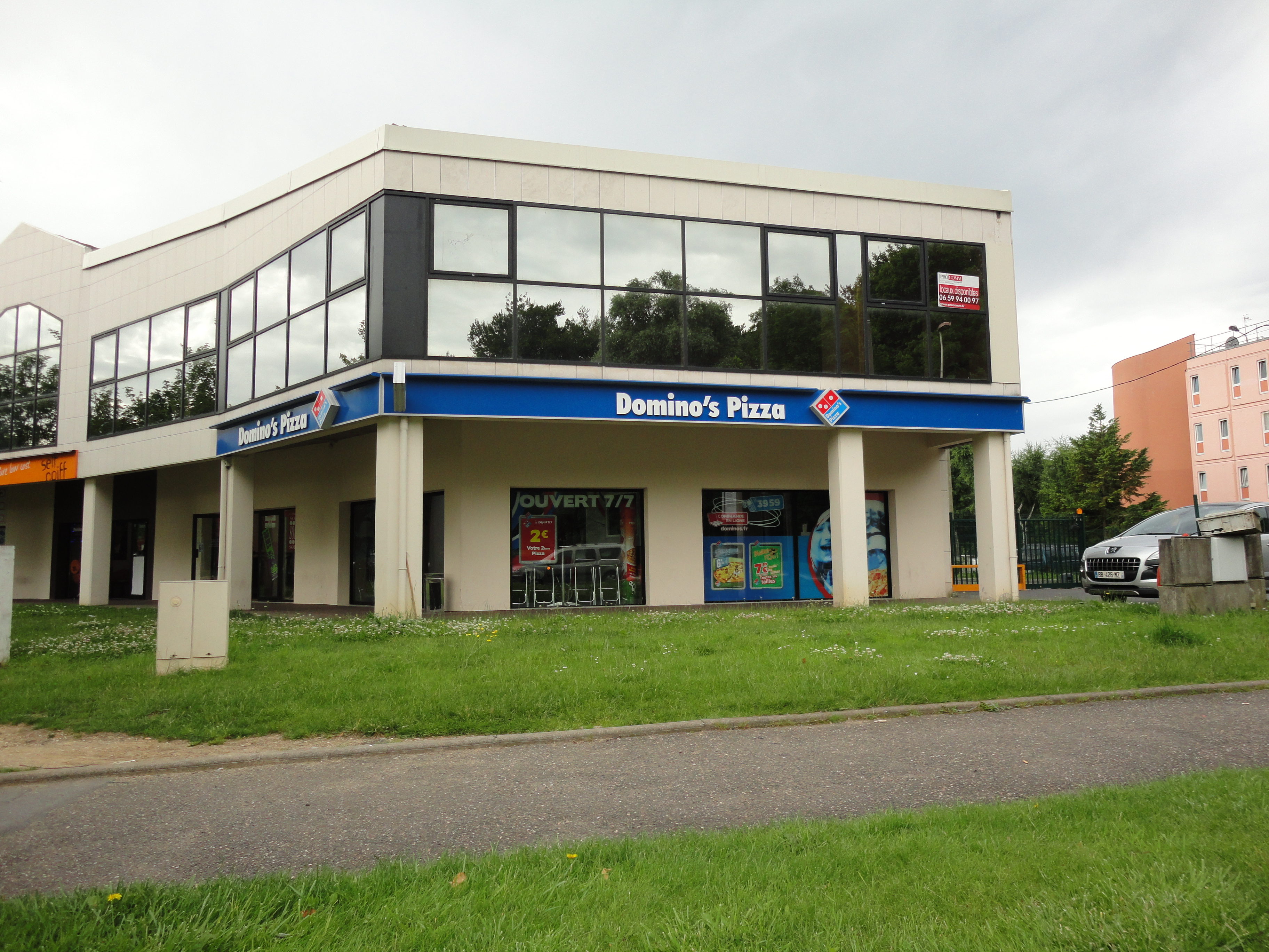 The Domino's Pizza of Torcy